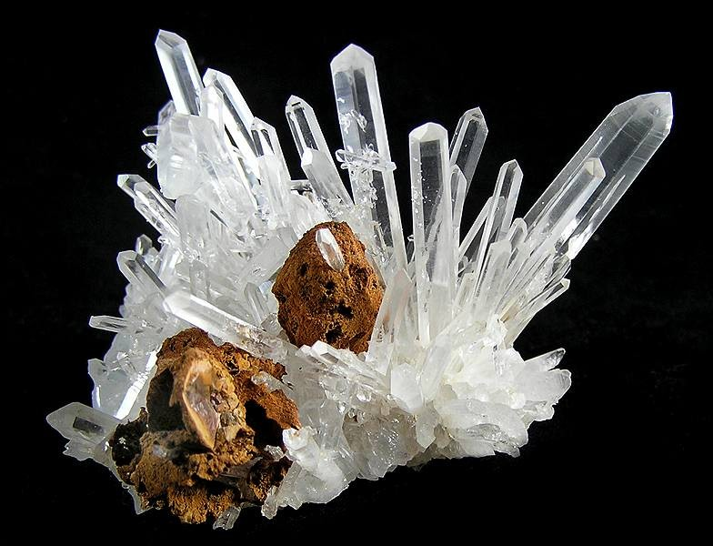 Quartz Locality: La Gardette Mine, Bourg d'Oisans, Isère, Rhône-Alpes, France (Locality at ) Size: 6.9 x 5.9 x 5.9 cm. Slender elegant crystals with silky luster on limonitic matrix.